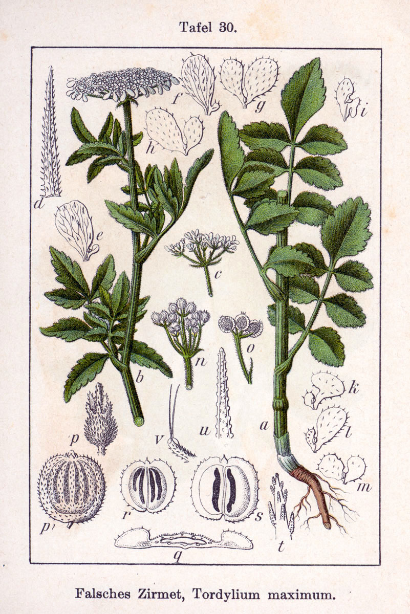 Tordylium maximum L. Original Description Falsches Zirmet, Tordylium maximum